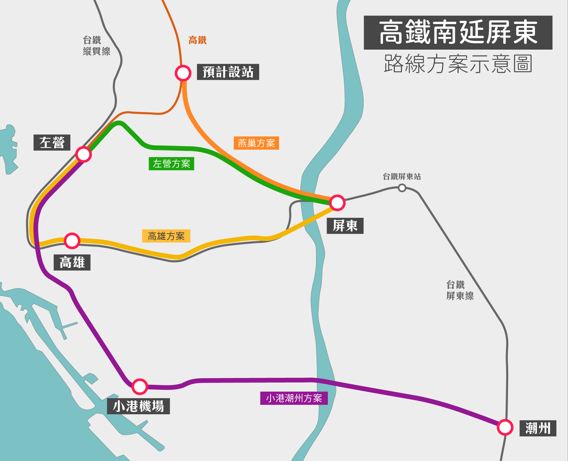 THSR Pingtung Extension Plan Map